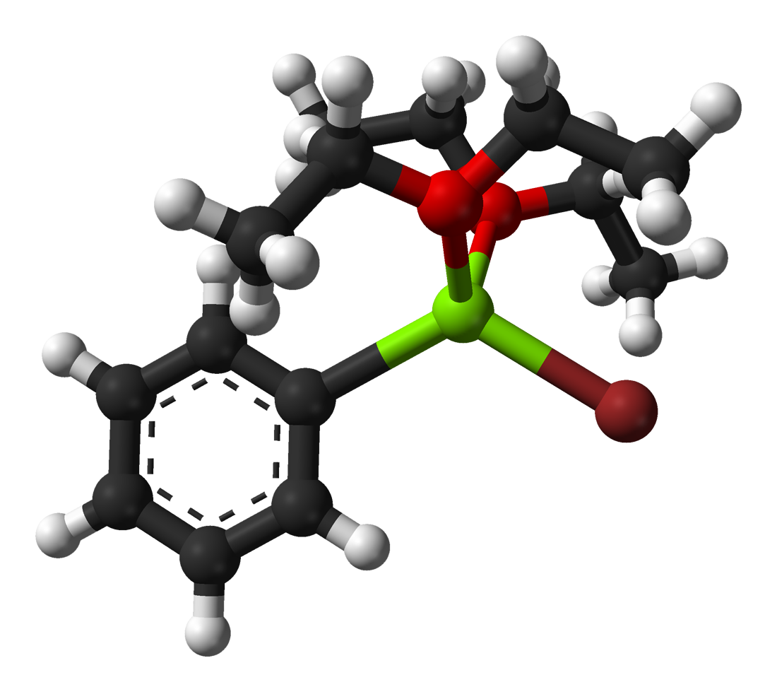 Ball-and-stick model of the phenylmagnesium bromide dietherate complex, [PhMgBr(OEt2)2], as found in the crystal structure. X-ray crystallographic data from J. Am. Chem. Soc. (1964) 86, 4825-4830. The quality of data is quite poor for the carbon atom positions, particularly the ether carbons, so these have been estimated with molecular mechanics and should not be taken too literally. Model constructed in CrystalMaker 8.1. Image generated in Accelrys DS Visualizer.